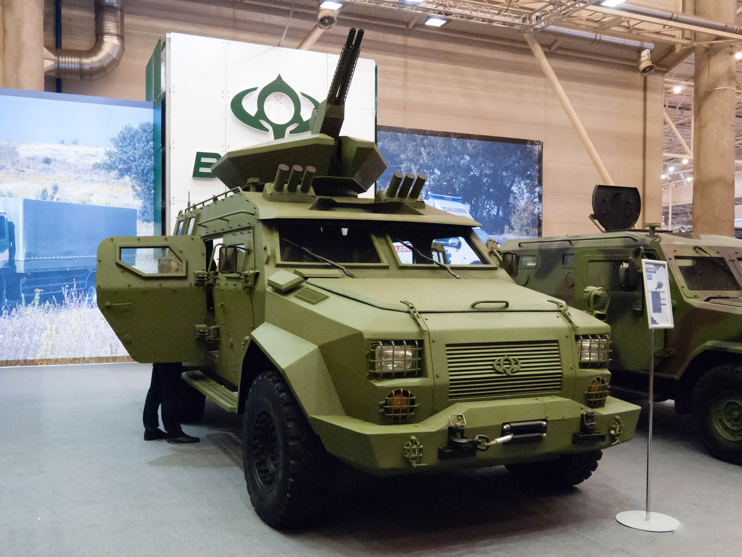 Bars-8 vehicle with Taipan fighting module (Ukraine)